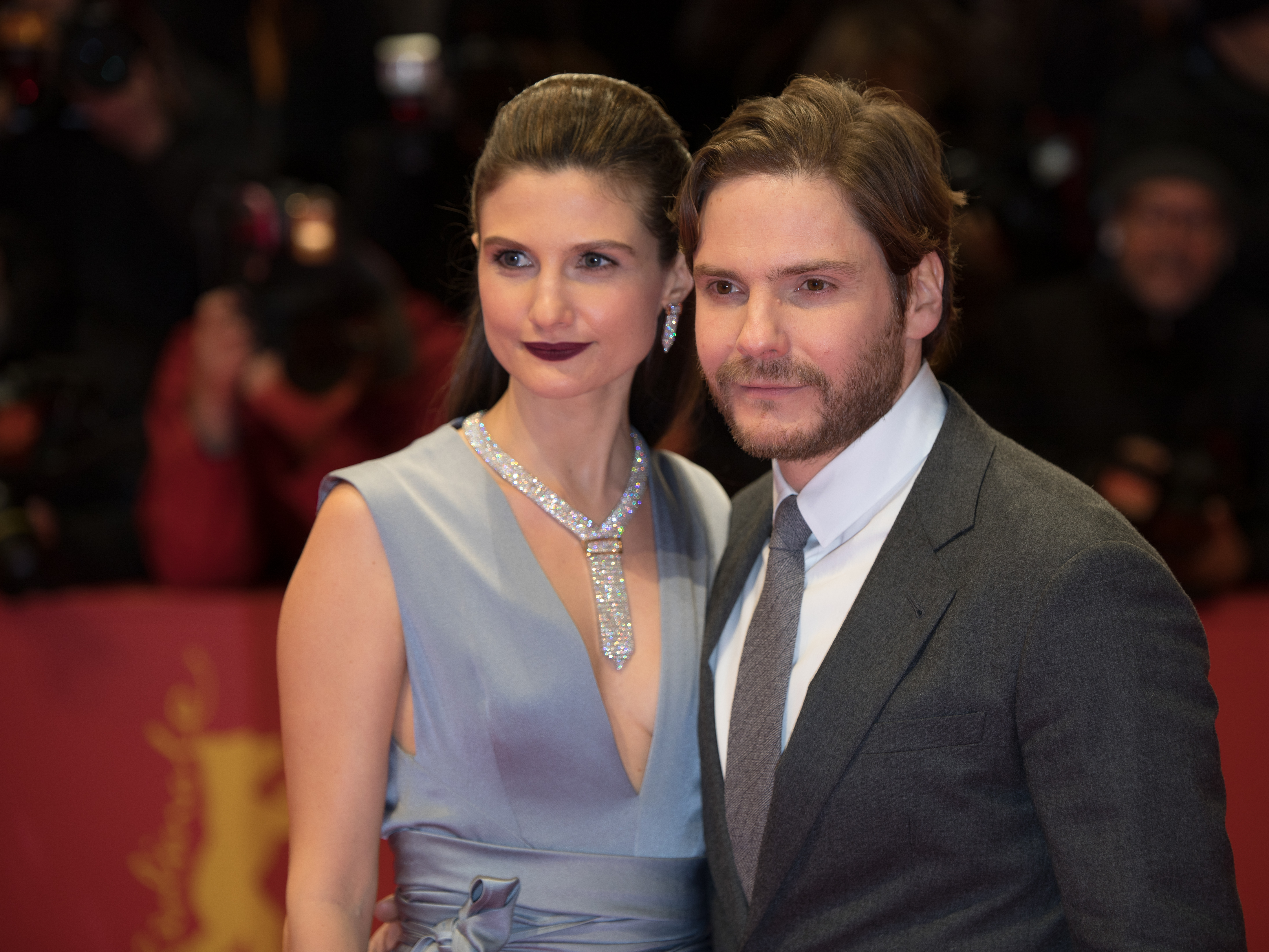 Felicitas Rombold and Daniel Brühl at the Berlinale 2018